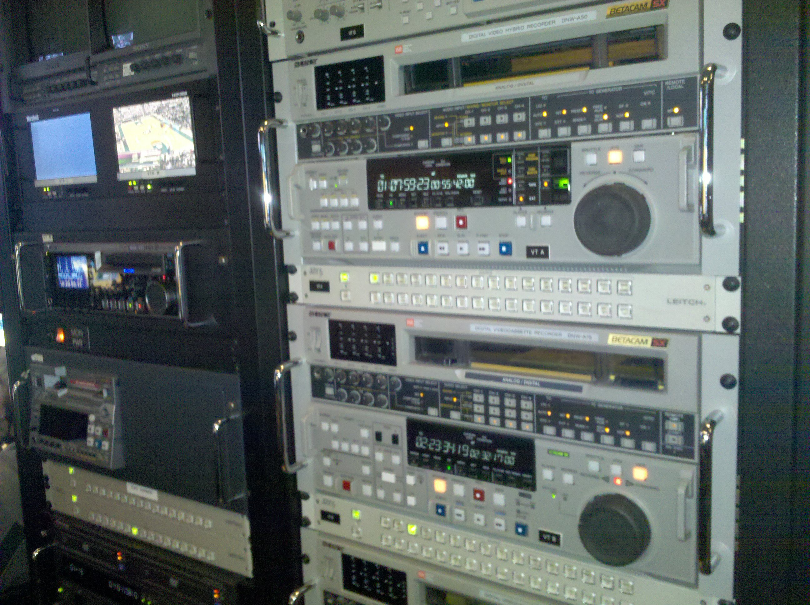 SpartanVision MSU Athletic Communications, Camera Phone